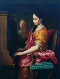 "Heilige Cäcile" by Louis Counet